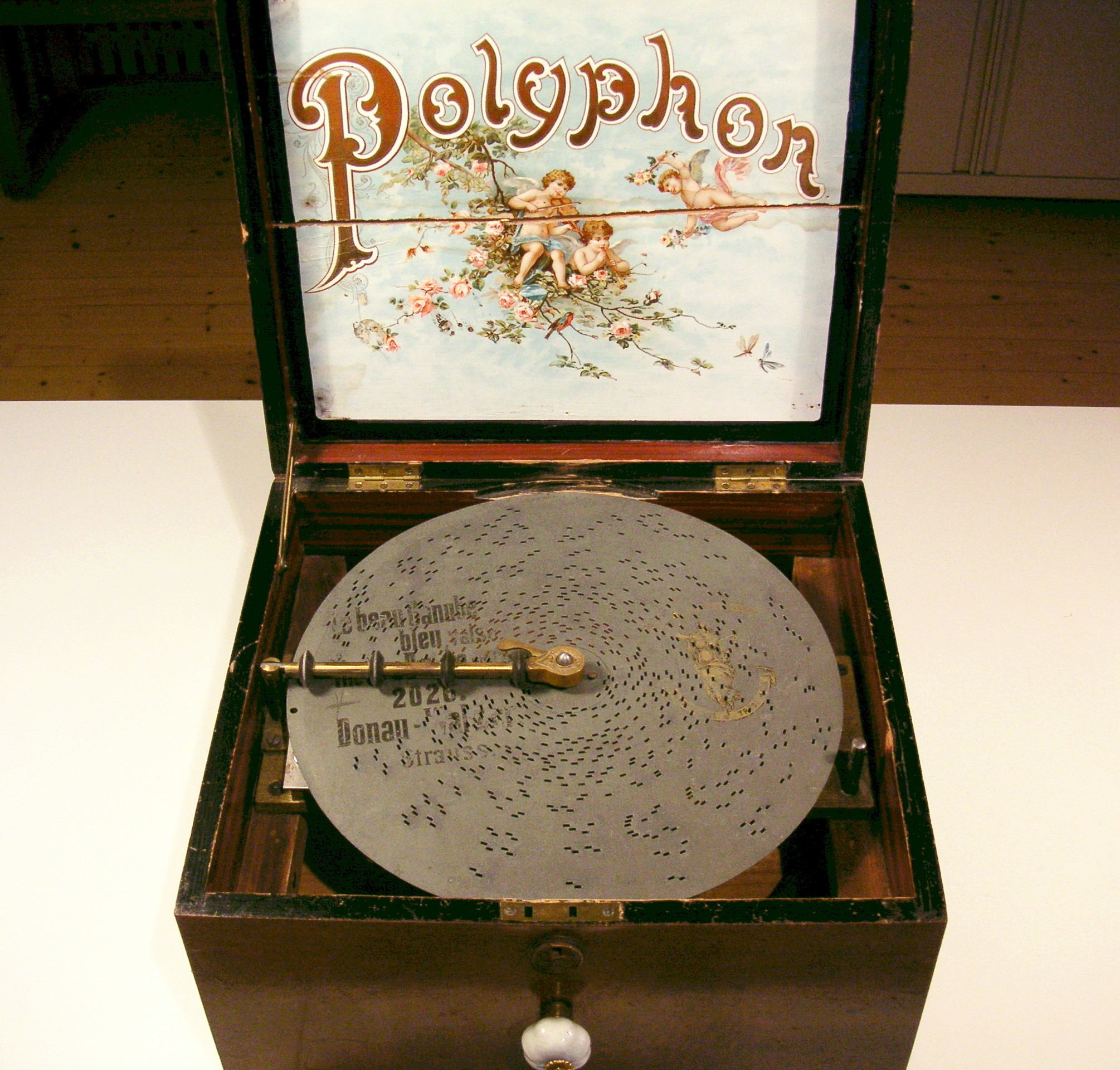 Polyphon Spieldose